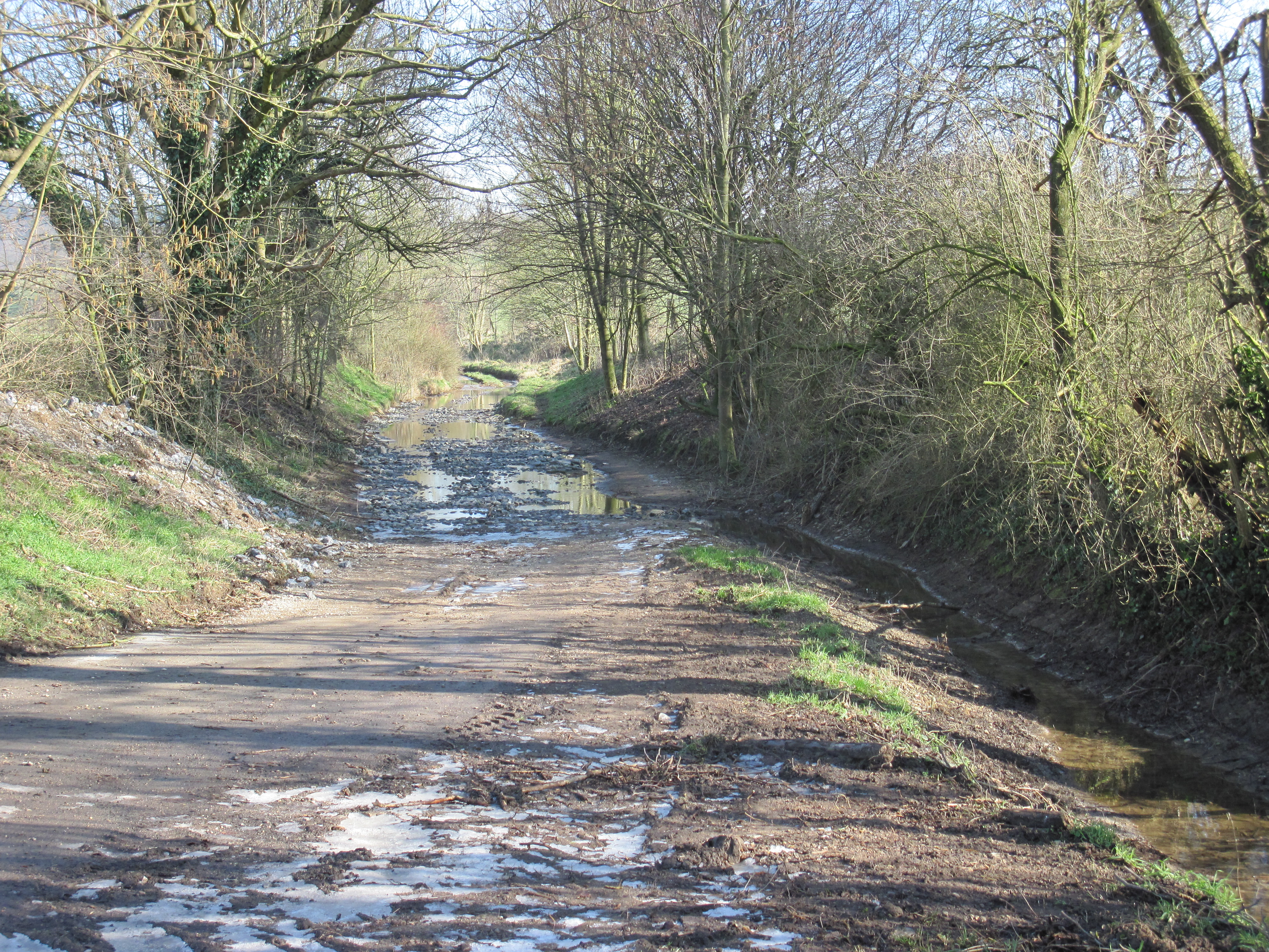 Ellerbach stream nearly fallen dry, just east of Kirchborchen. Sharing its bed with an agricultural track.